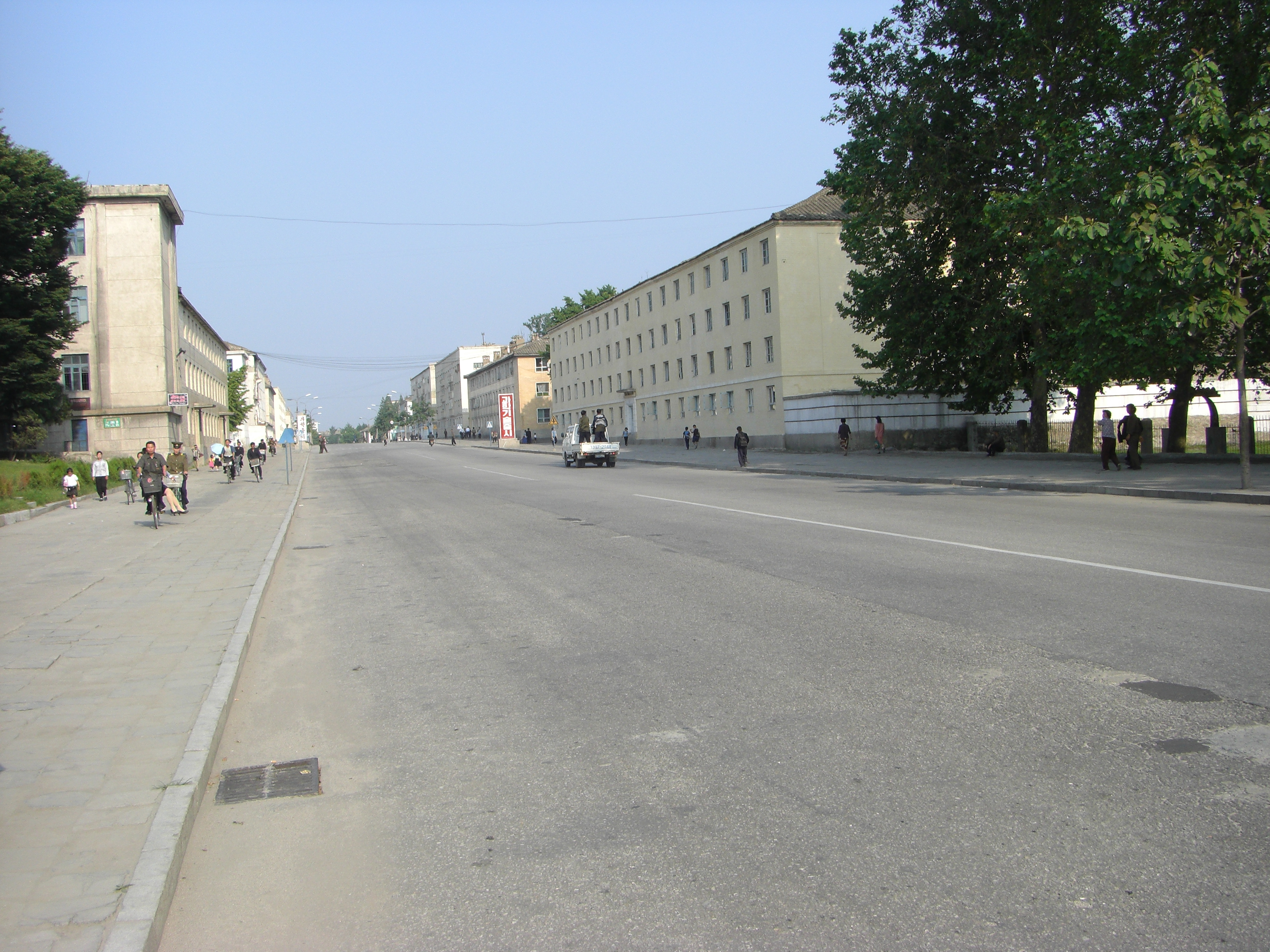 Haeju, North Korea.